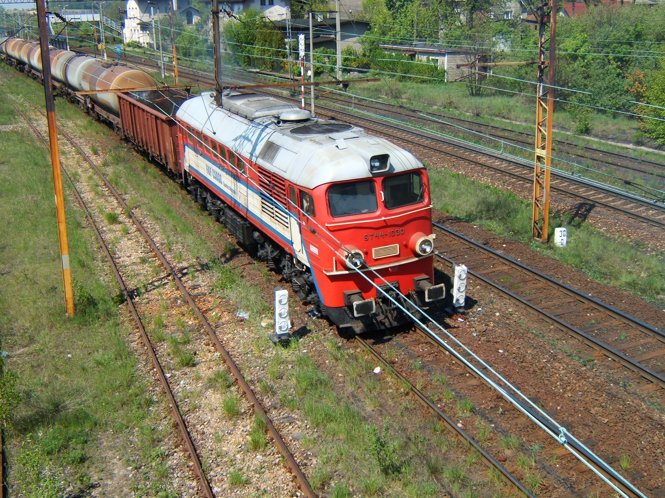 ST44-1030, property of PKP Cargo